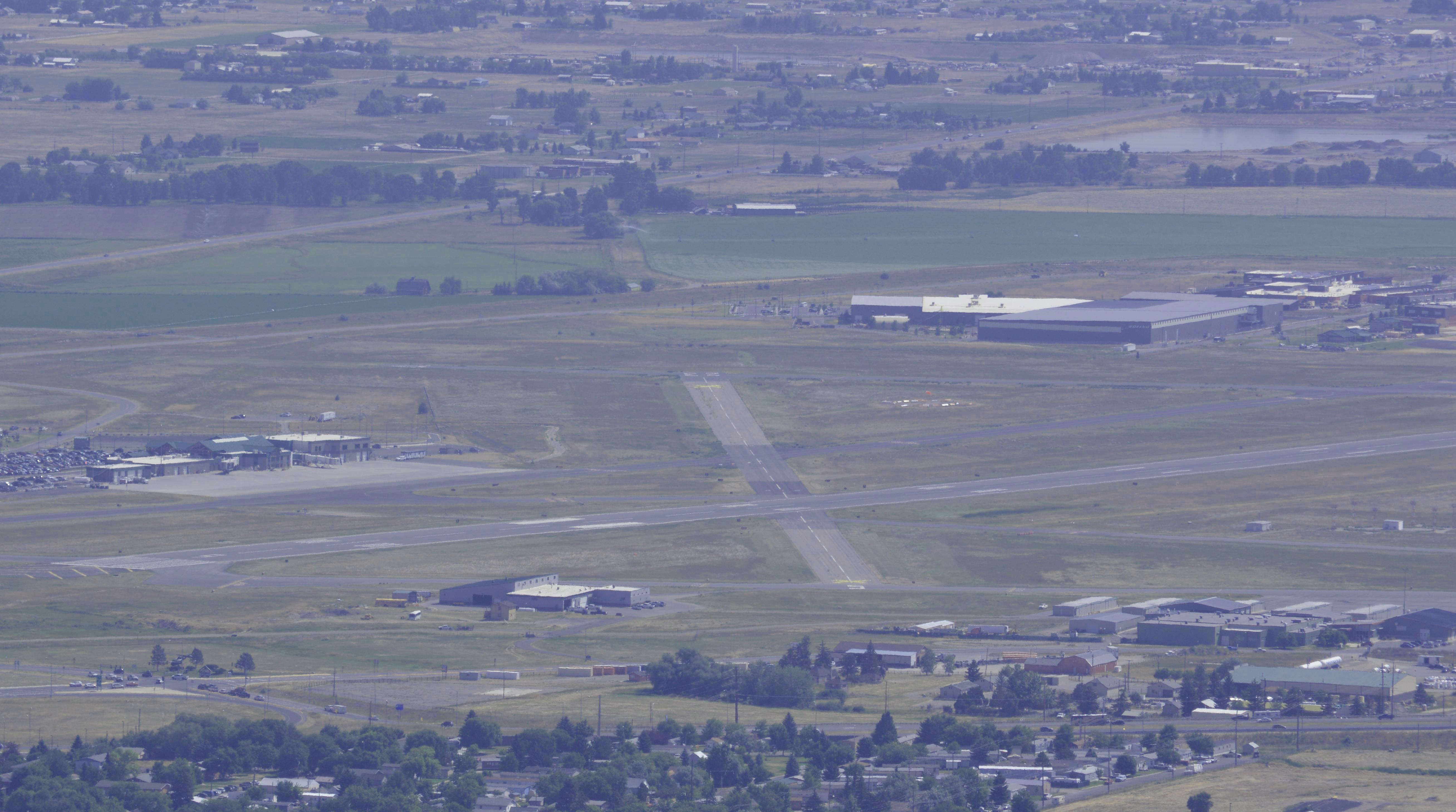 Helena Regional Airport looking northeast on runway 05 and the passenger terminal, viewed from Mt. Helena in July, 2018.